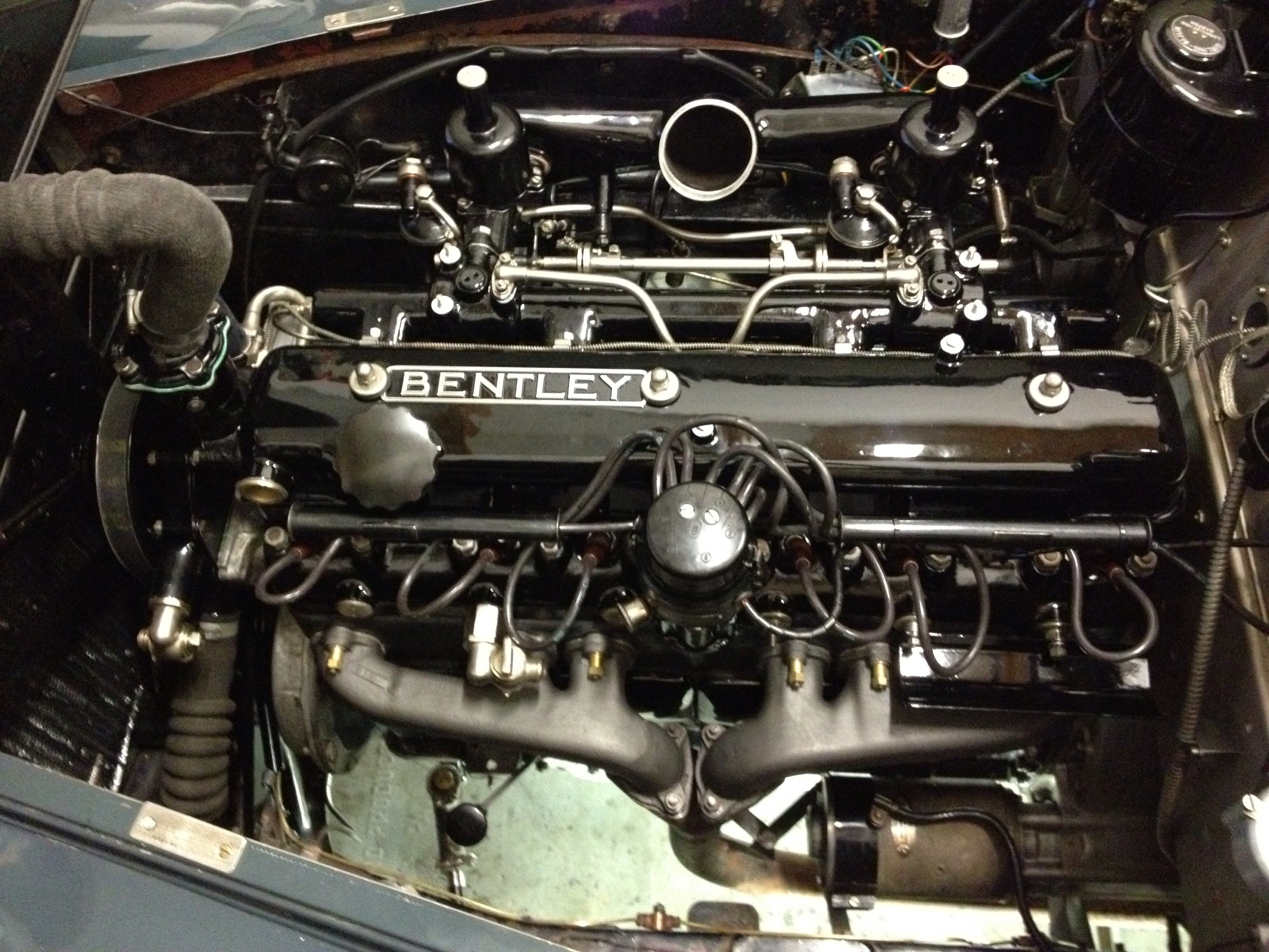 Working on the engine of 1950 Bentley MK VI.